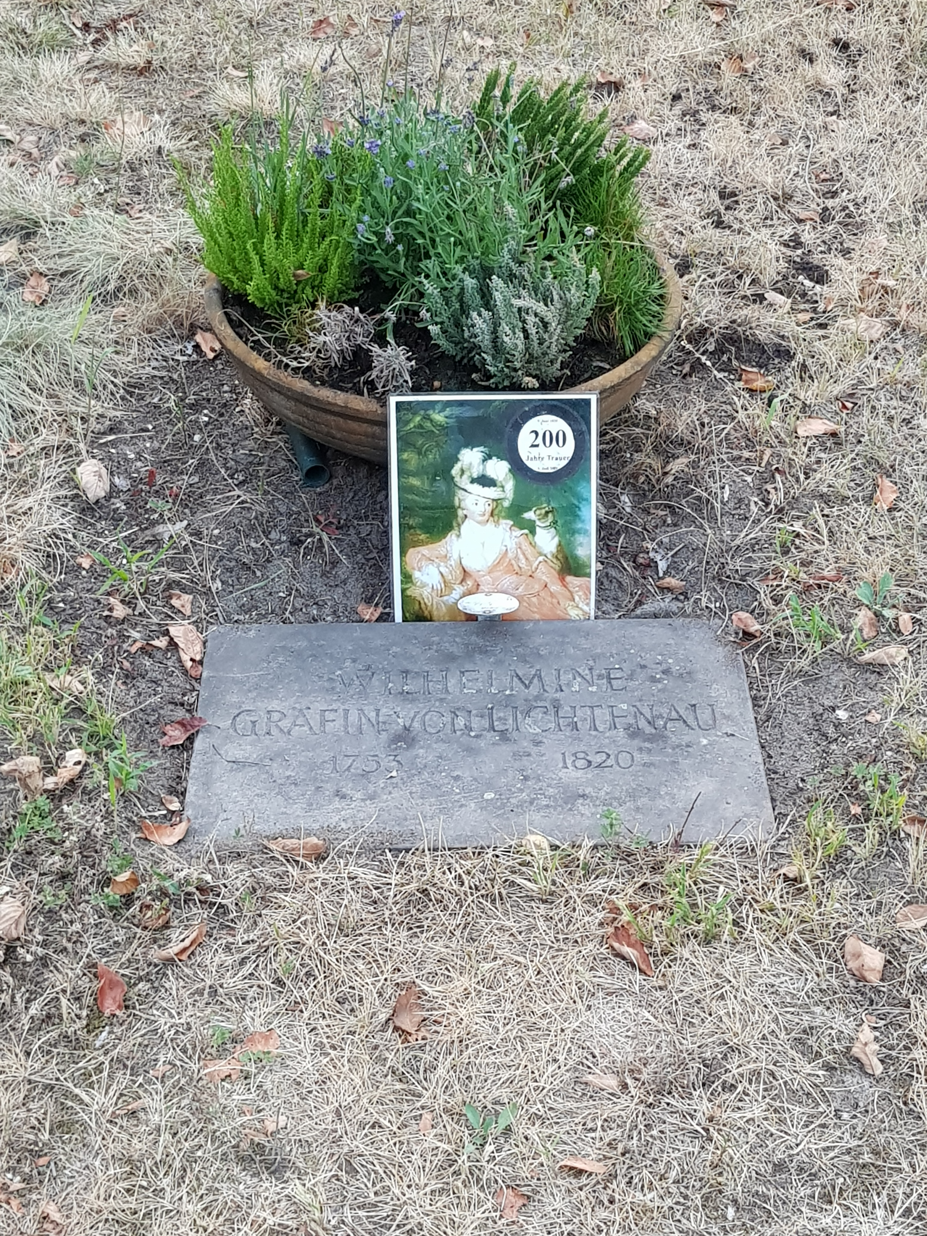 Memorial flagstone for Wilhelmine von Lichtenau at the St.-Hedwig's-cemetery, Gesundbrunnen, Berlin